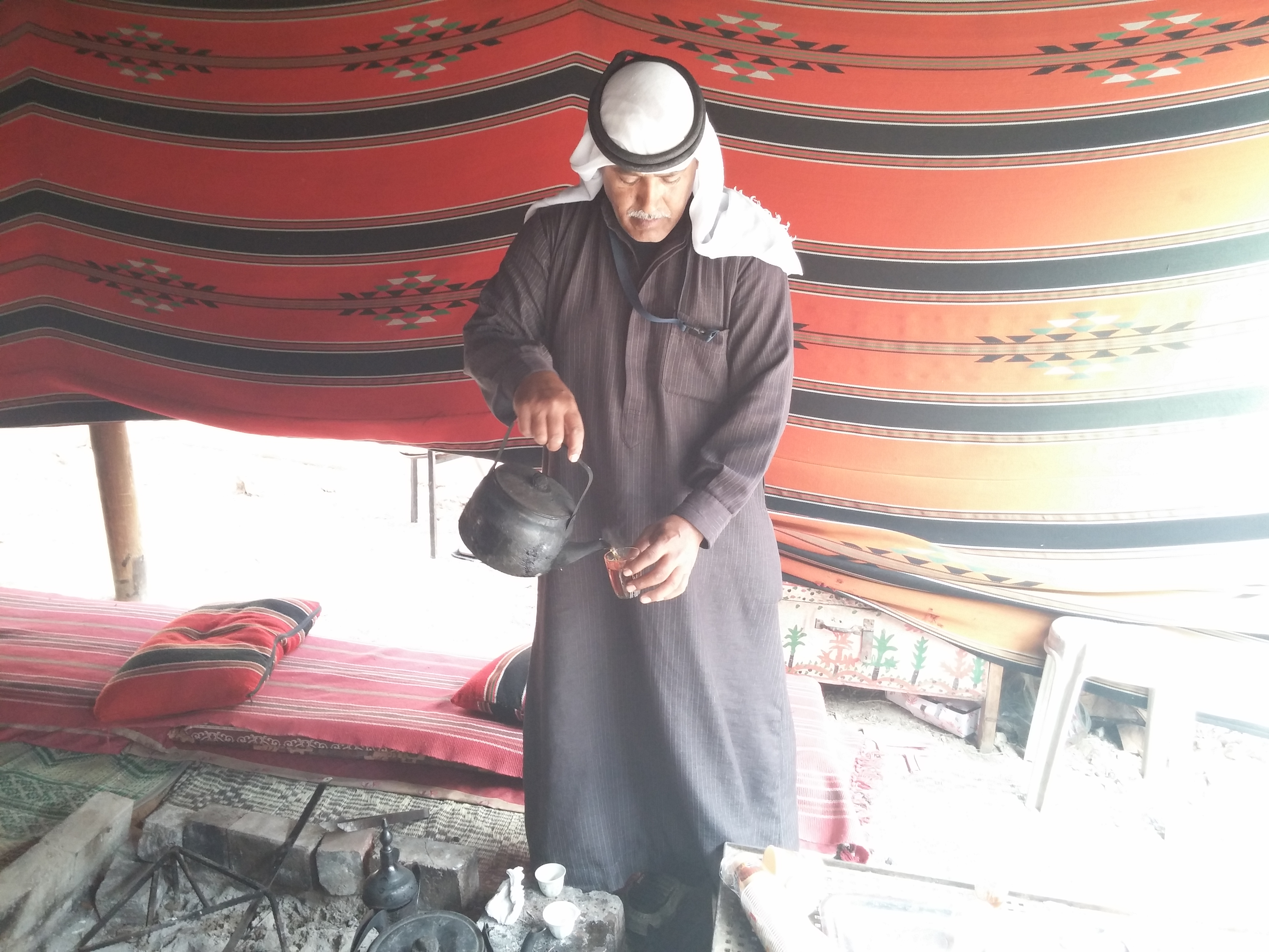 Bedouin man serving tea to guests, in a bedouin tent, Joe Alon Center for Bedouin culture, Israel